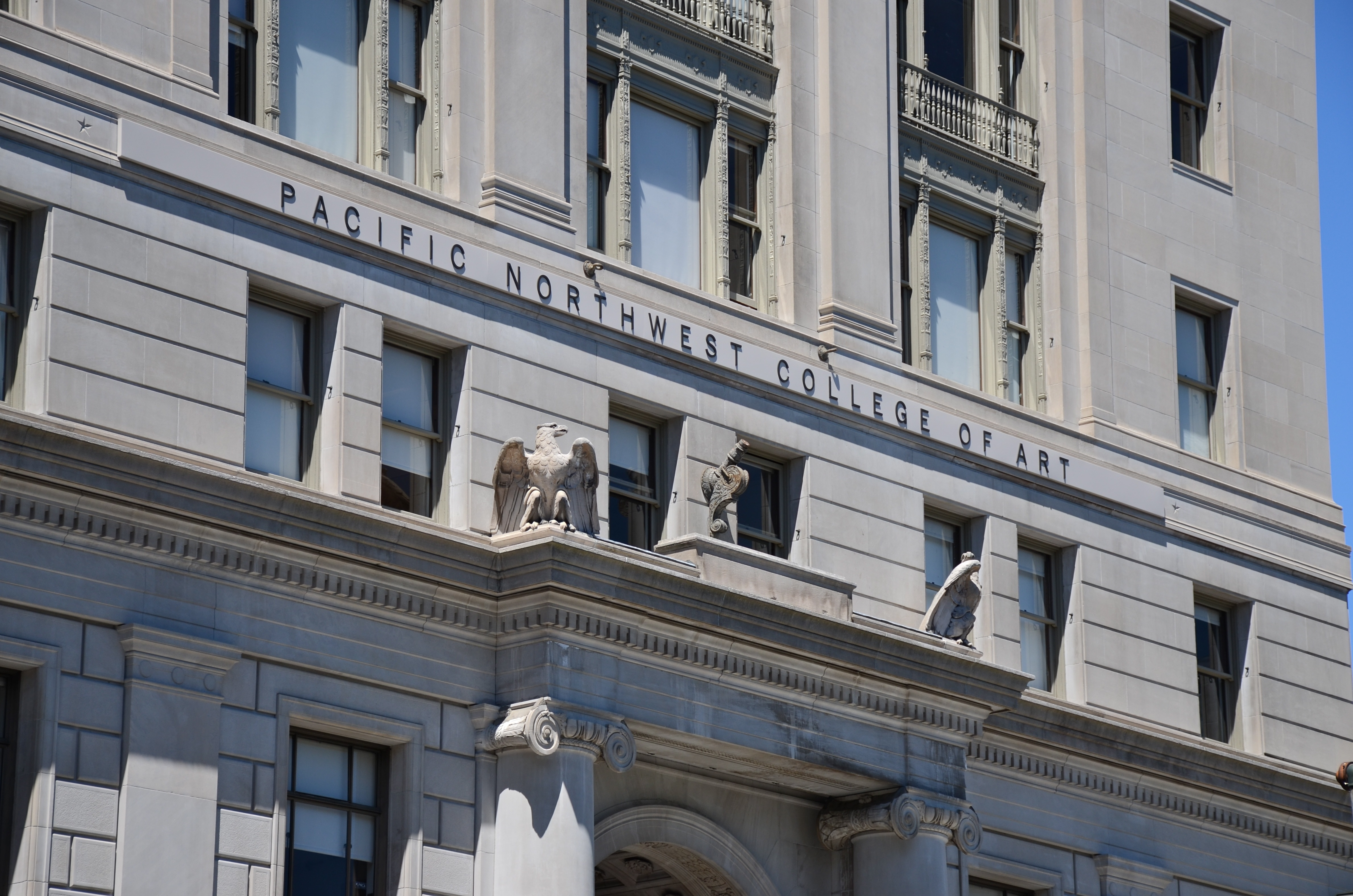 New lettering for the Pacific Northwest College of Art (PNCA) above the east entrance to the historic 511 Federal Building, in Portland, Oregon. The PNCA lettering was added during 2014 renovations, replacing lettering reading "Federal Building". The building is now named the Arlene and Harold Schnitzer Center for Art and Design. Located at 511 NW Broadway, it was constructed in 1916–18 as a U.S. post office. In 1979, it was added to the U.S. National Register of Historic Places.